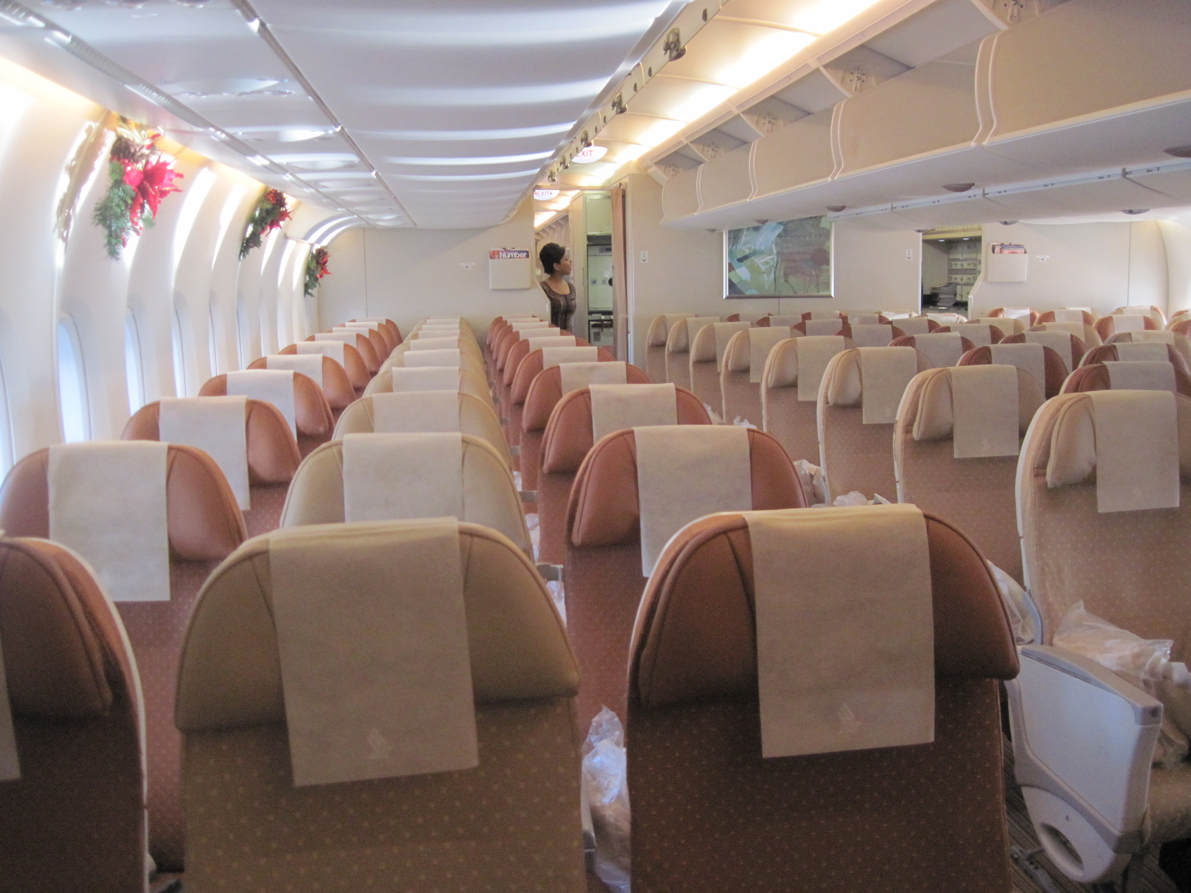 Nice presented Singapore airlines A380 Economy class, lower deck